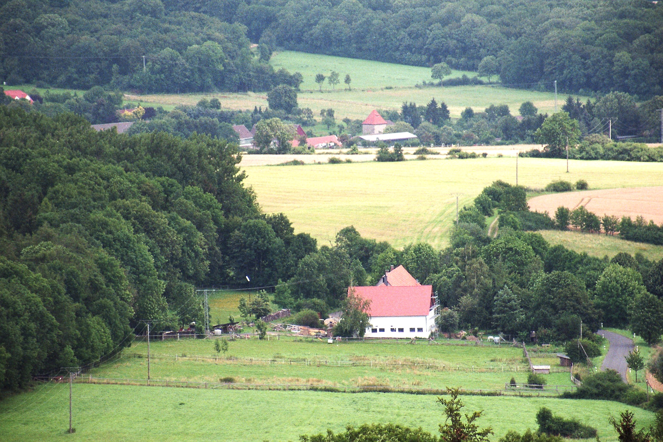 Bördel (Dransfeld), view from mountain Hoher Hagen